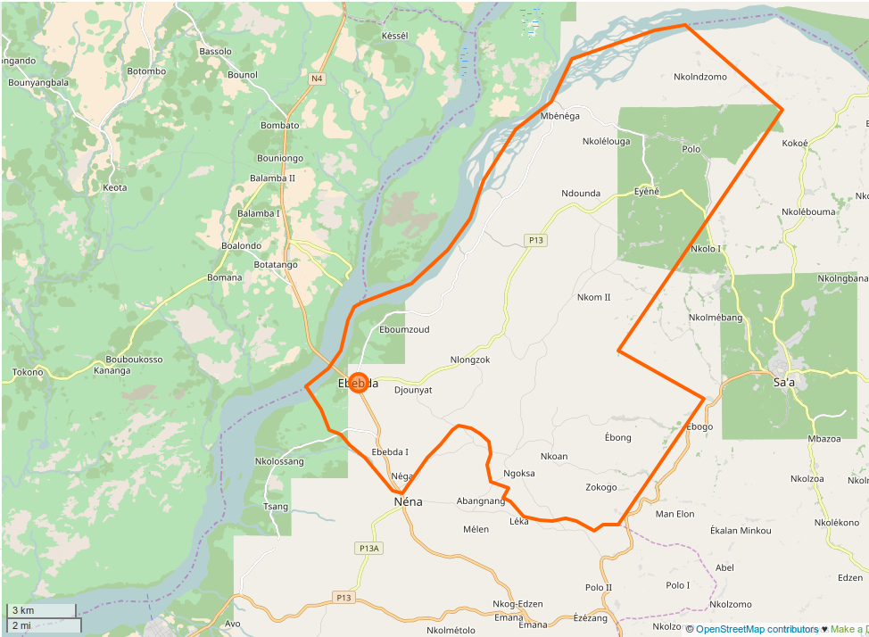 Ebebda in Cameroon, city boundaries with OSM. This map may be incomplete, and may contain errors. Don't rely solely on it for navigation.